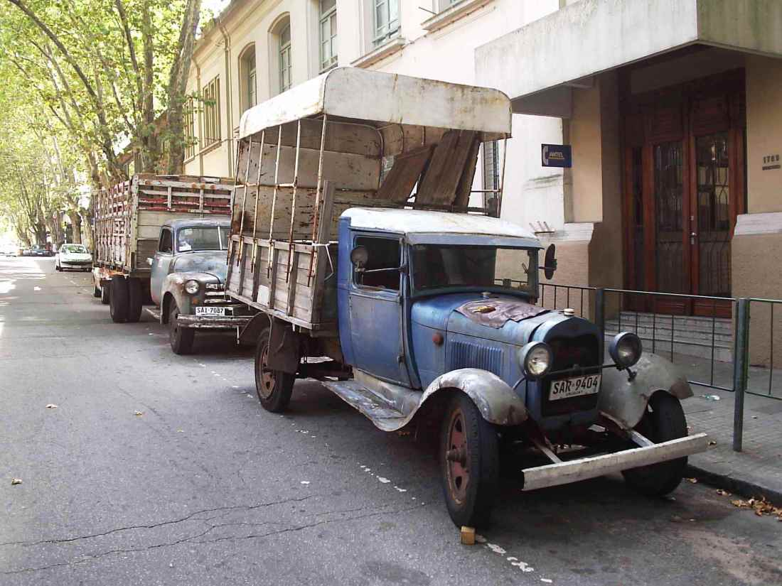 Still working hard in Montevideo, Uruguay (2005)